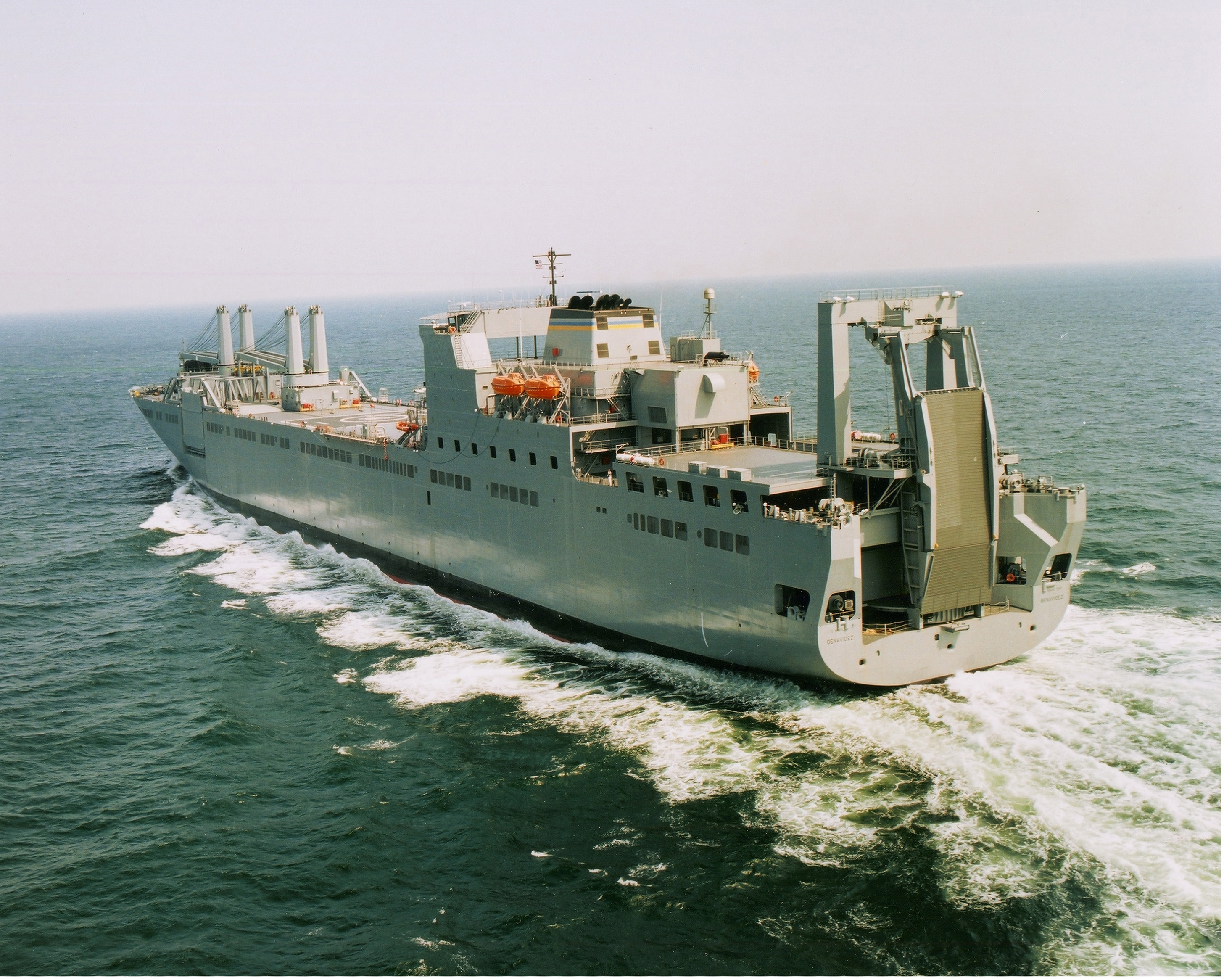 Gulf of Mexico (May 5, 2003)--Sea trials of USNS Benavidez (T-AKR-306) by Northrop Grumman Ship System Avondale Operations. U.S. Navy photo by Ron Elias (RELEASED)